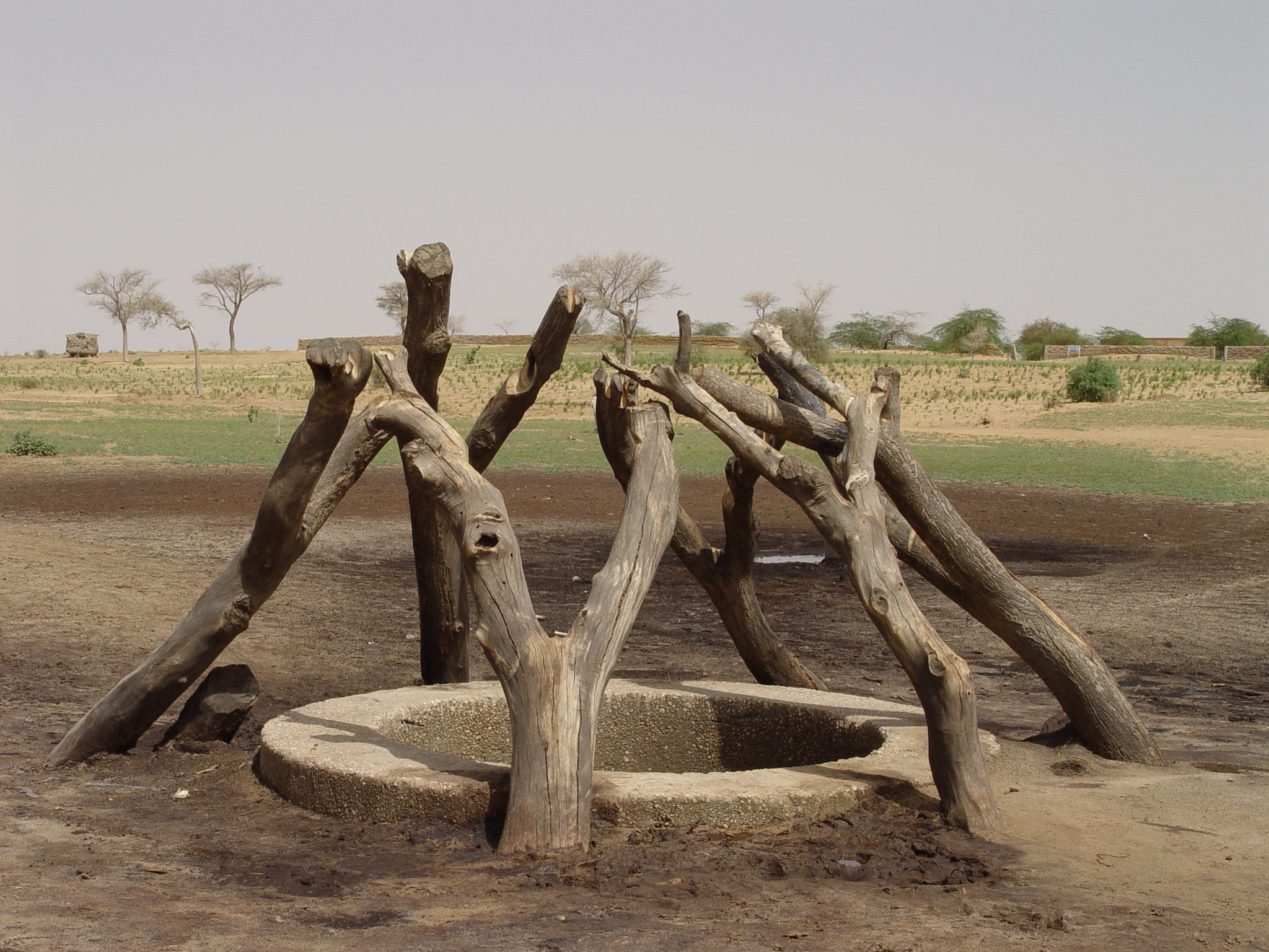 A pastoral well in the surroundings of Zinder, Niger in Western Africa.